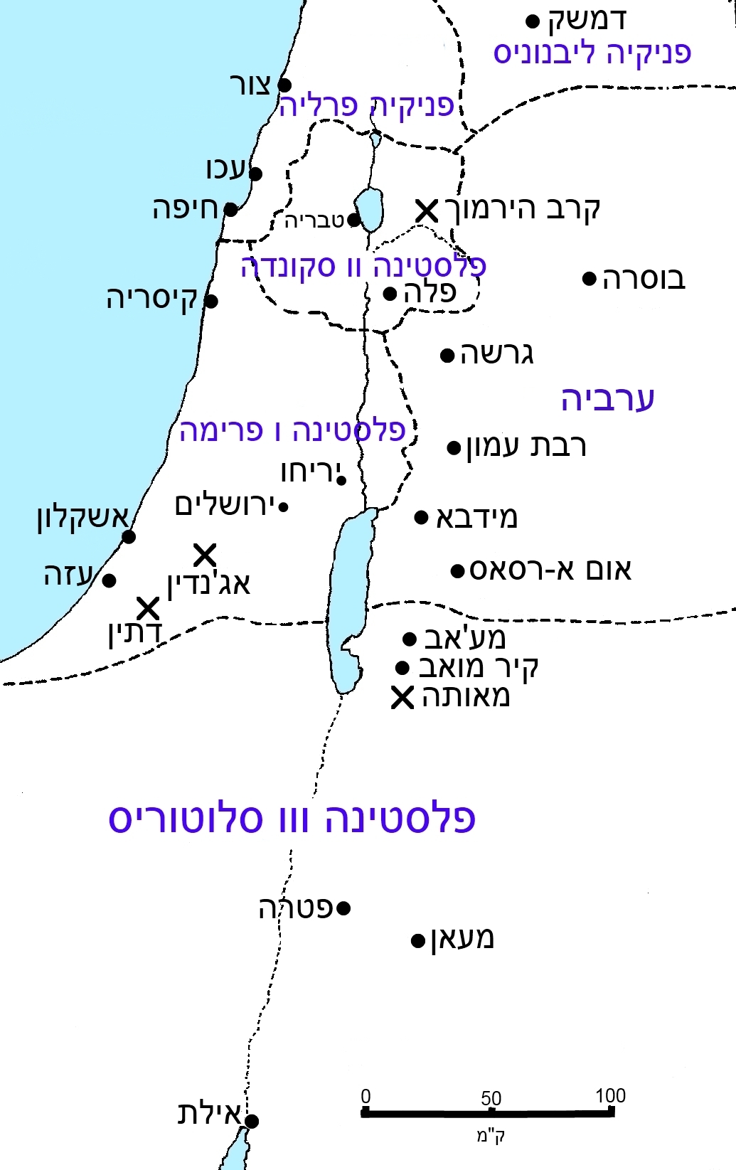 map of the Palestine province of Byzantine empire 7th-6th century